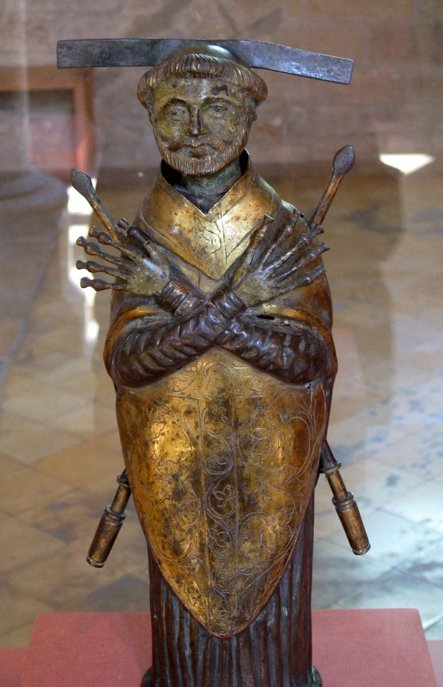 sculpture of St. Benignus of Dijon / total view frontal material: bronze, painted size: ca. 40 cm exhibition: archaeological museum of Dijon, dormitory of the former Benedictine abbey St. Bénigne patron saint of the monastery